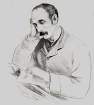 Drawing of Prime Minister John X Merriman of the Cape Colony. From the Selections from the Correspondence of J.X. Merriman.